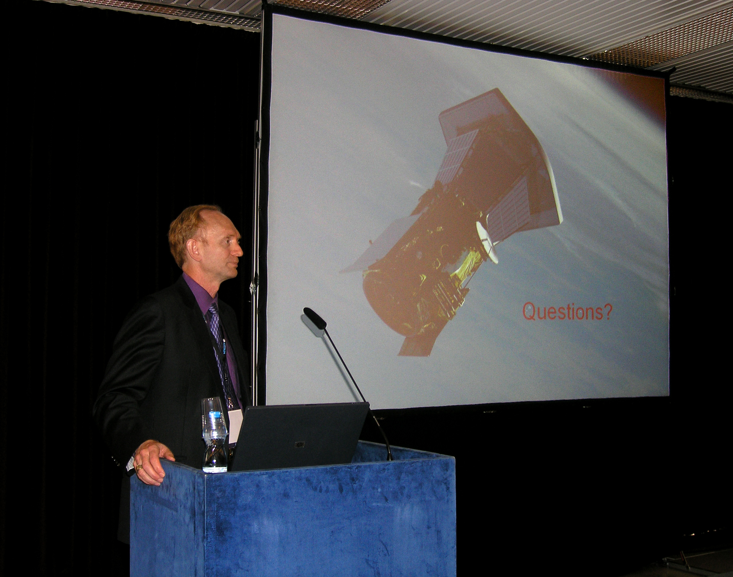 James Kinnison from The Johns Hopkins University Applied Physics Laboratory: Solar Probe Plus mission. 61st International Astronautical Congress in Prague, Czech Republic.